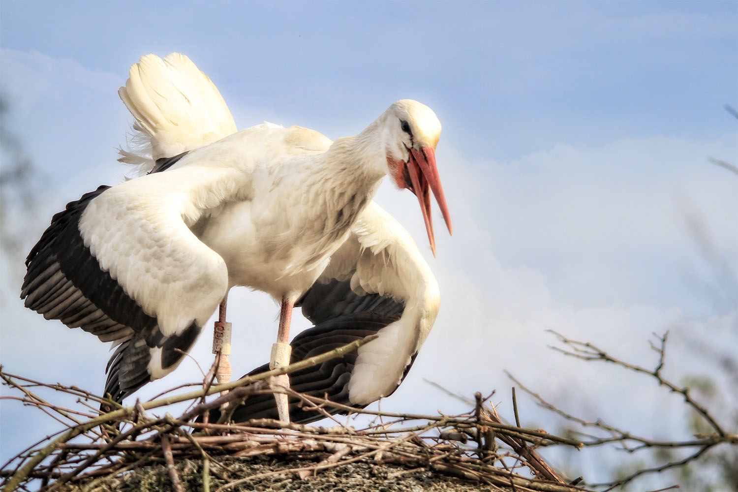 Courtship display ____ Free to use under creative commons attribution licence. If you blog an image or use it in any other way, please leave the URL in the comments. If you use one of my images in your art, I'd appreciate it if you give credit, link back & show your result (small size please) in the comments.